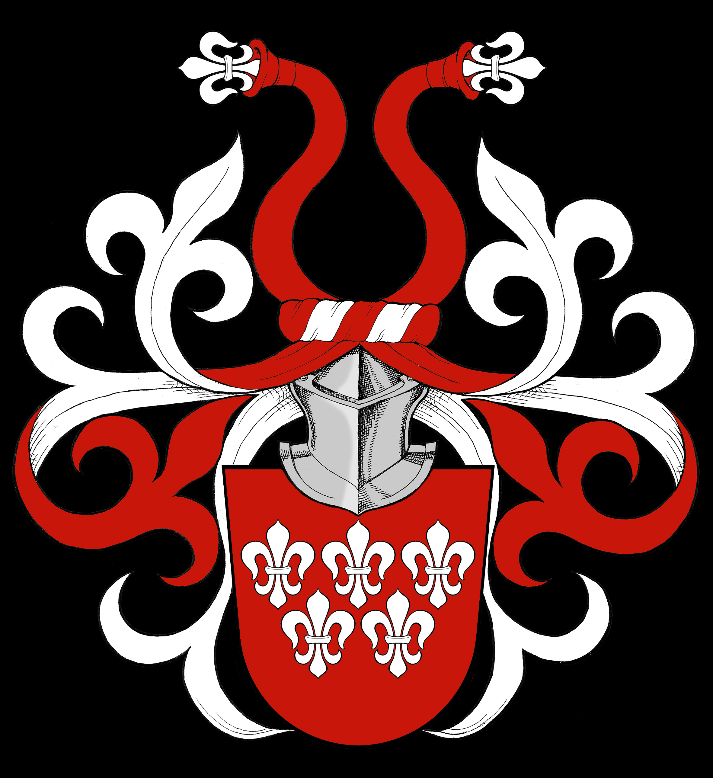 Original coats of arms of the Lorber Family of Bamberg before it's nobilitation 1571. Drawn as described by Ignaz von Lorber (1788-1857), the last known member of the noble family branch, in his application for nobility to the Bavarian king (Bayerisches Hauptstaatsarchiv München, L 31 Seite 6f).